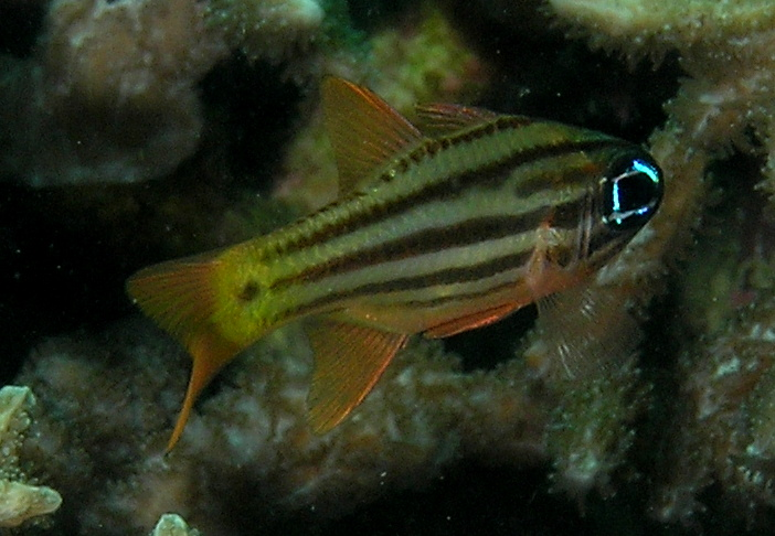 Juvenile/ sub-adult